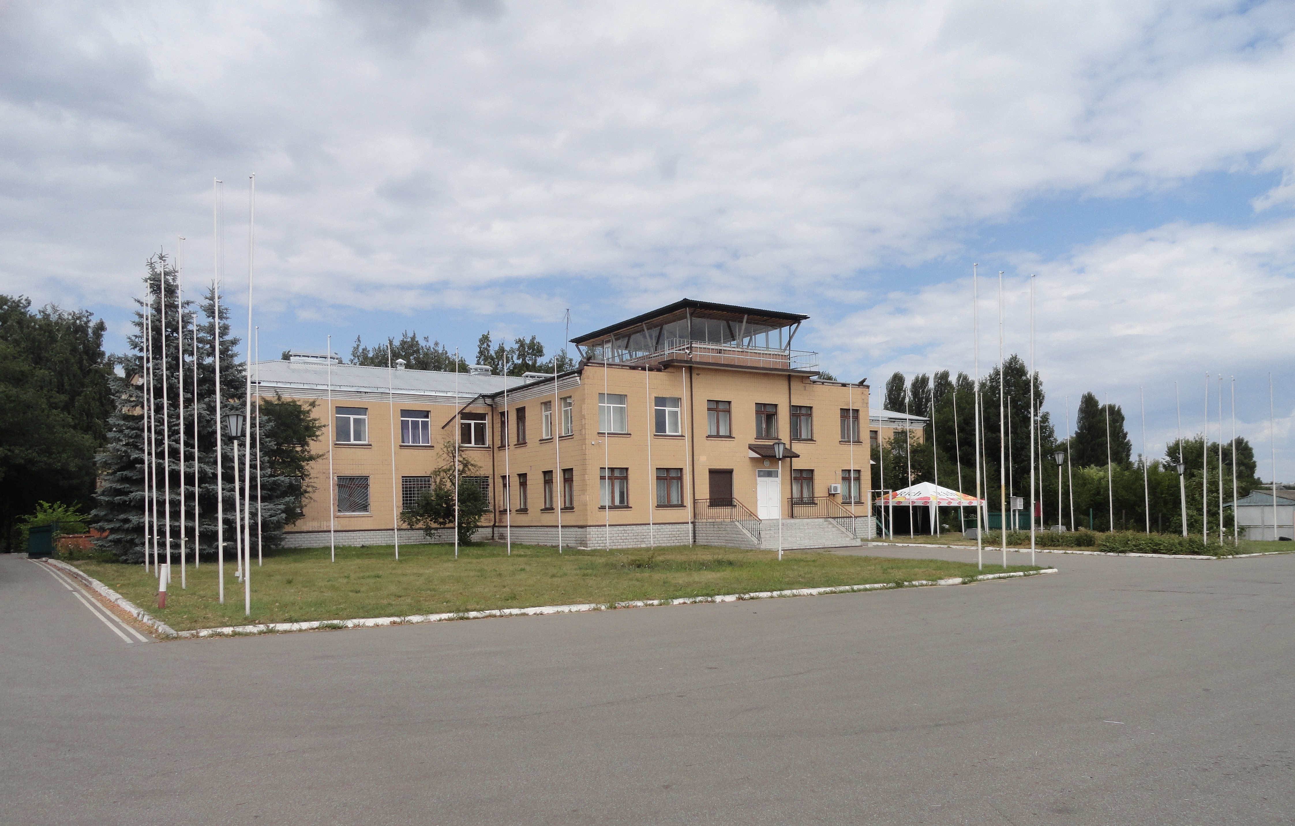 Control tower Chayka airfield . The old airfield near Kiev , was formerly DOSAAF airfield .